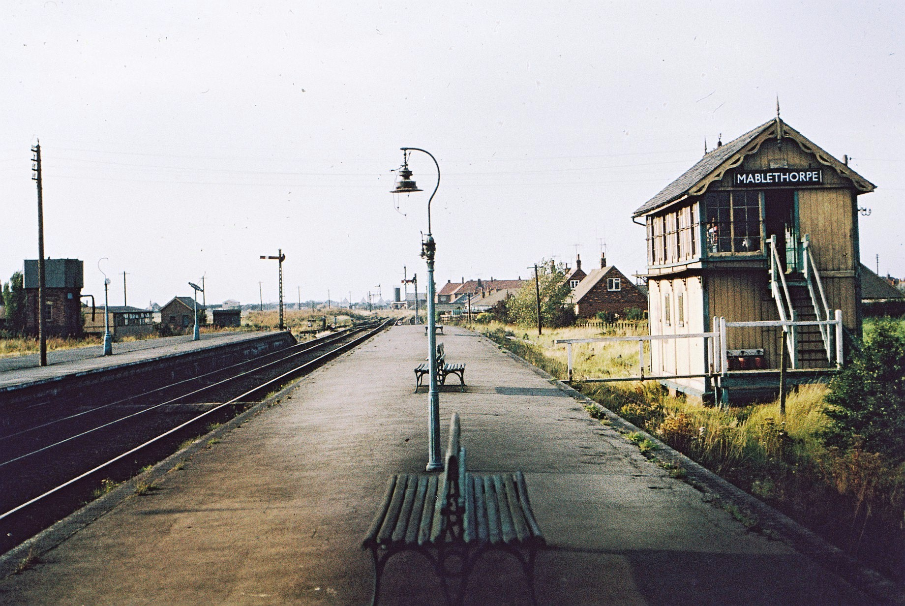 Mablethorpe railway station looking north.